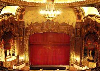 The St. George Theatre is a landmarked building in St. George, Staten Island, New York.